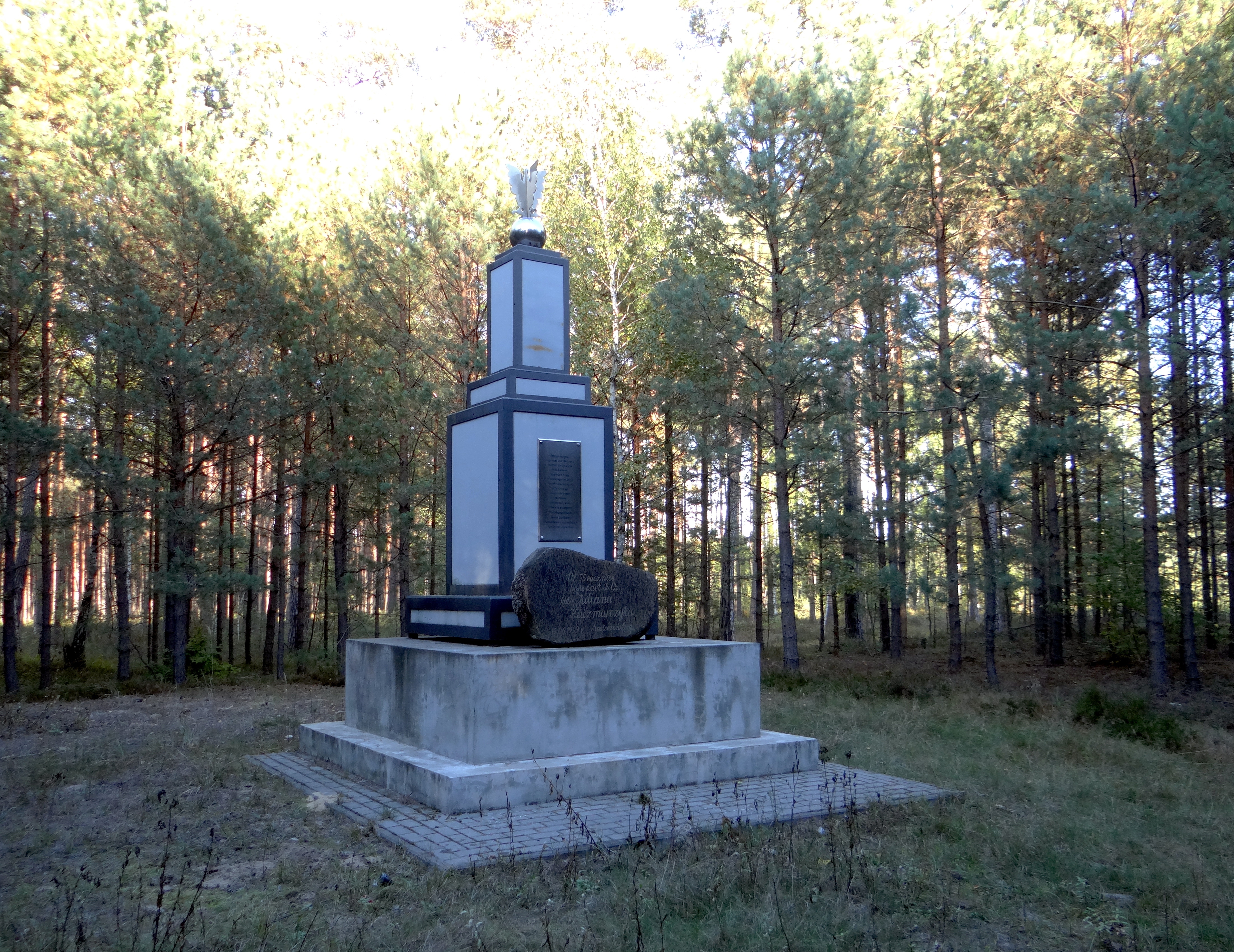 Memorial of partisans of Peasants' Battalions in Mostki, Graba hamlet, killed 11 June 1944 by nazis.